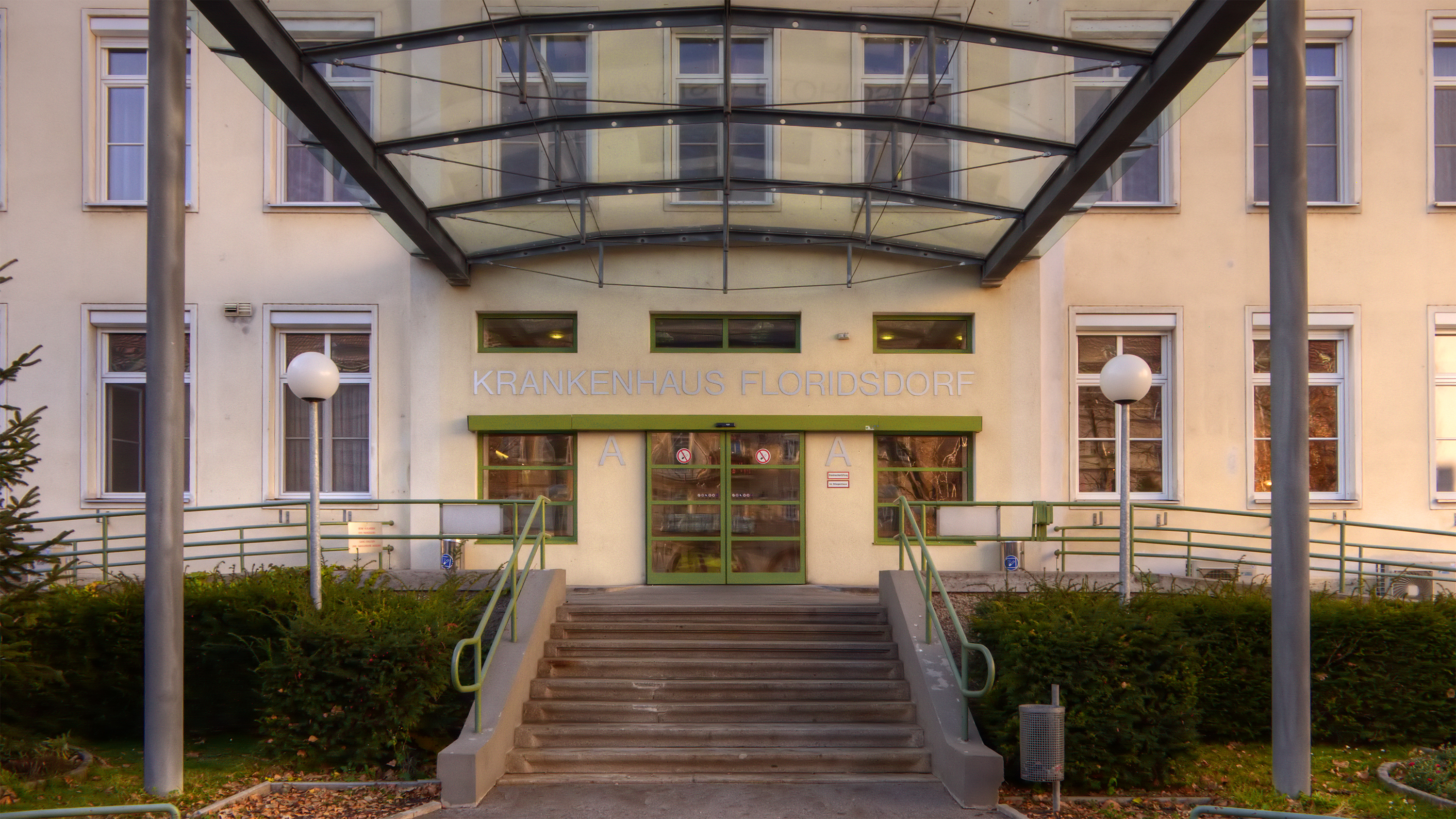 Sozialmedizinisches Zentrum in Vienna Floridsdorf